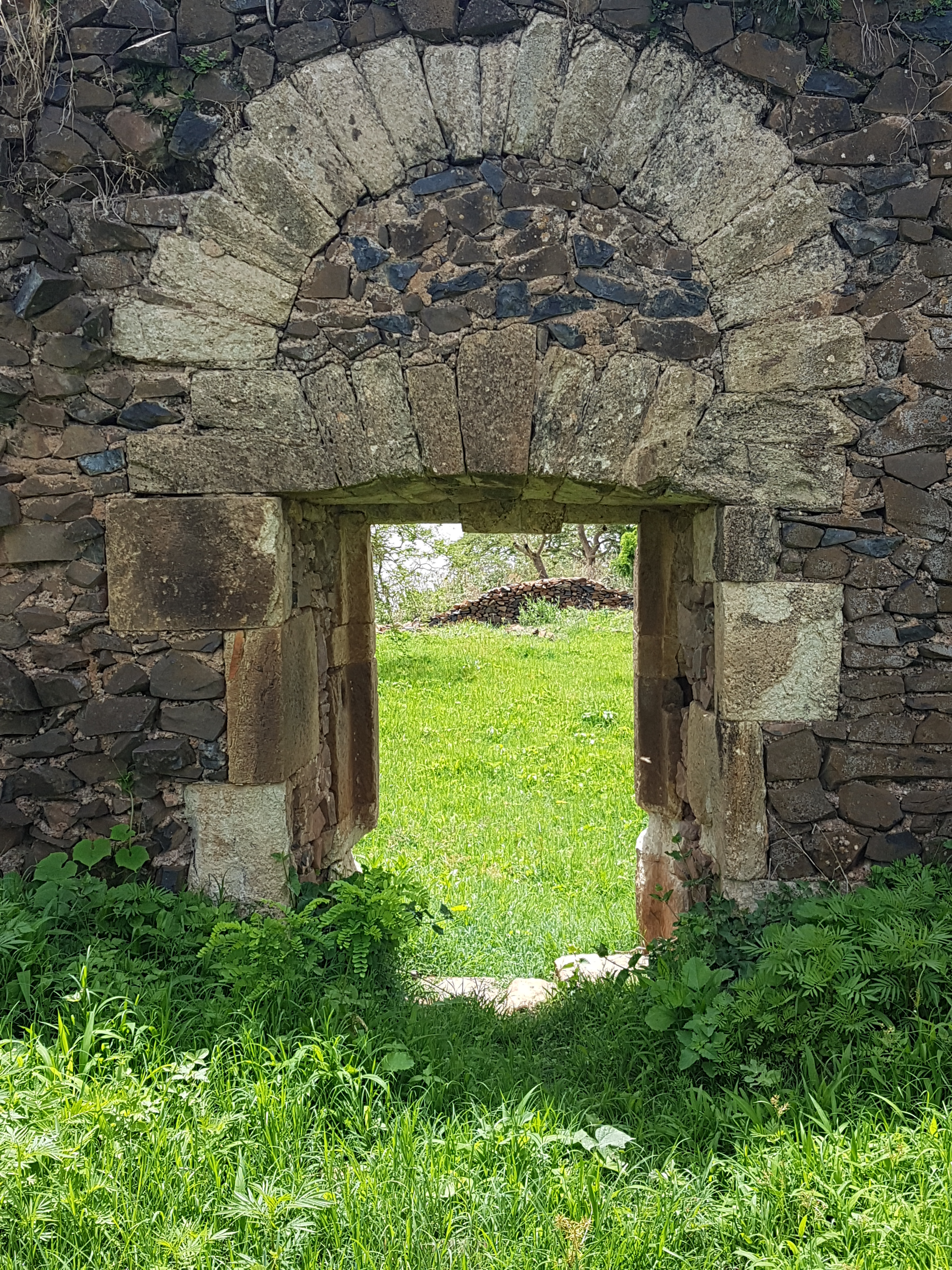 Former Jesuit residence in Gorgora Nova, Amhara Region, Ethiopia. July 2018.